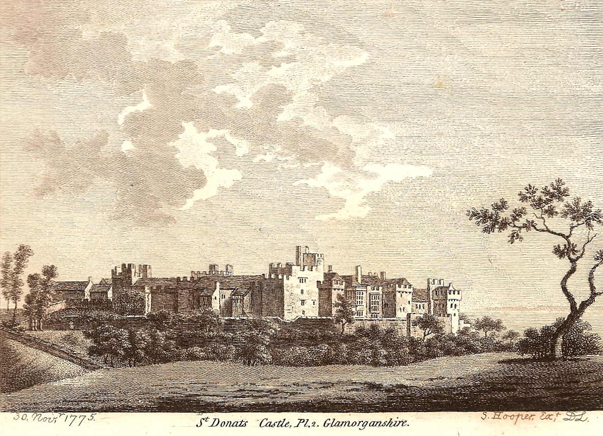 my scan of old print.Atlantic College in Wales